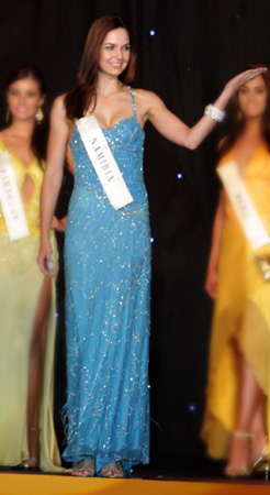 Miss Namibia 2008 Marelize Robberts during Miss World 08